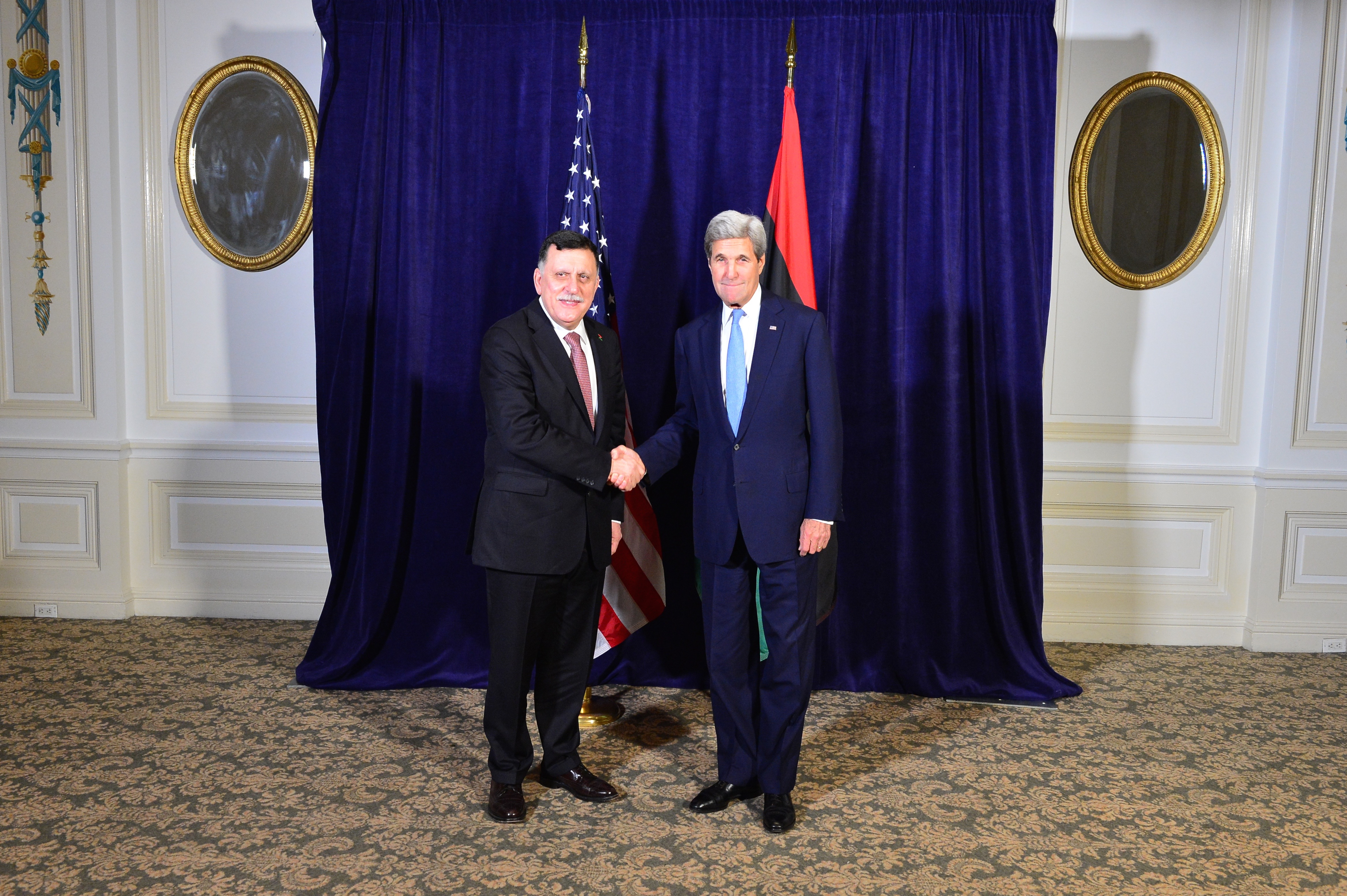 U.S. Secretary of State John Kerry Secretary Kerry meets with Libyan Prime Minister and President of Presidency Council Fayez al-Sarraj, at the Palace Hotel, in New York City, New York on September 22, 2016. [State Department Photo/Public Domain]